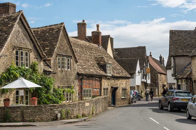 Church Street, Lacock.